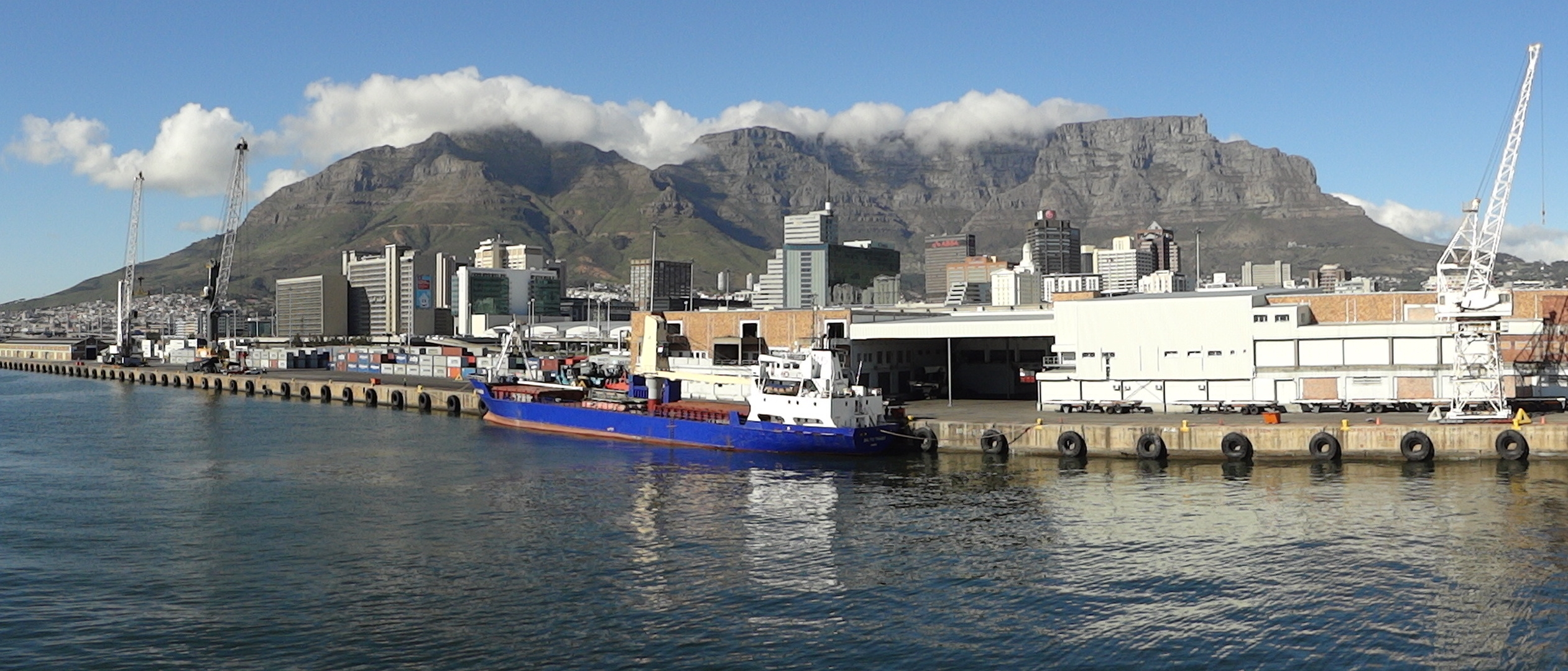 Table Mountain seen from Cape Town harbour 2011